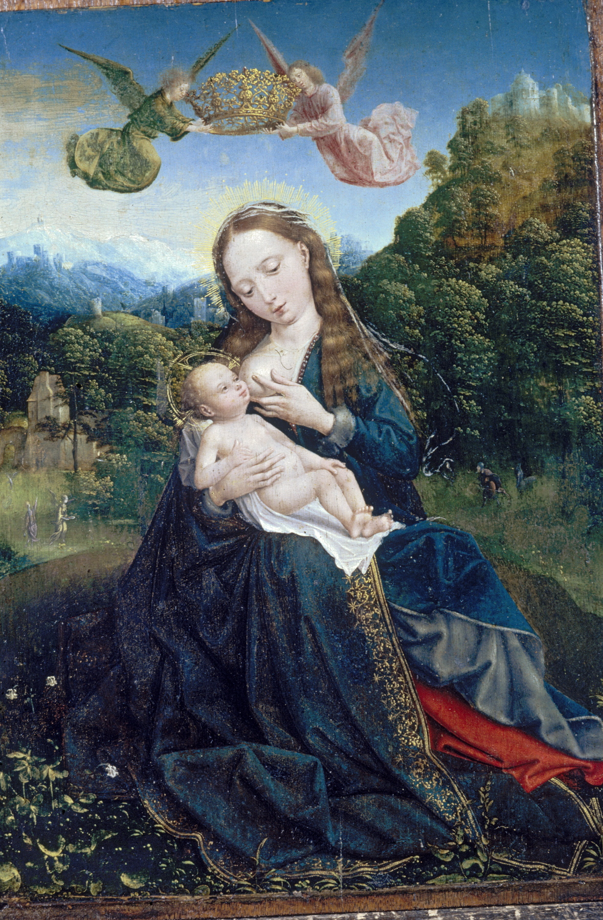 Simple images of the Virgin and Child were often found in private homes as an inspiration to prayer and meditation. The Gospels tell us little of the Holy Family's flight into Egypt to escape the wrath of Herod, though later legends describe the family stopping to rest and take nourishment. While the Virgin sits humbly on the ground and nurses her child, she is regally dressed, and angels hold a crown above her head in anticipation of her future role as Queen of Heaven. The columbines flowering in the foreground, an inn in the middle distance, and the wilderness through which the family has fled, depicted by overlapping hills receding to snowy peaks, reflect the new interest in the natural world among Antwerp painters at this time.